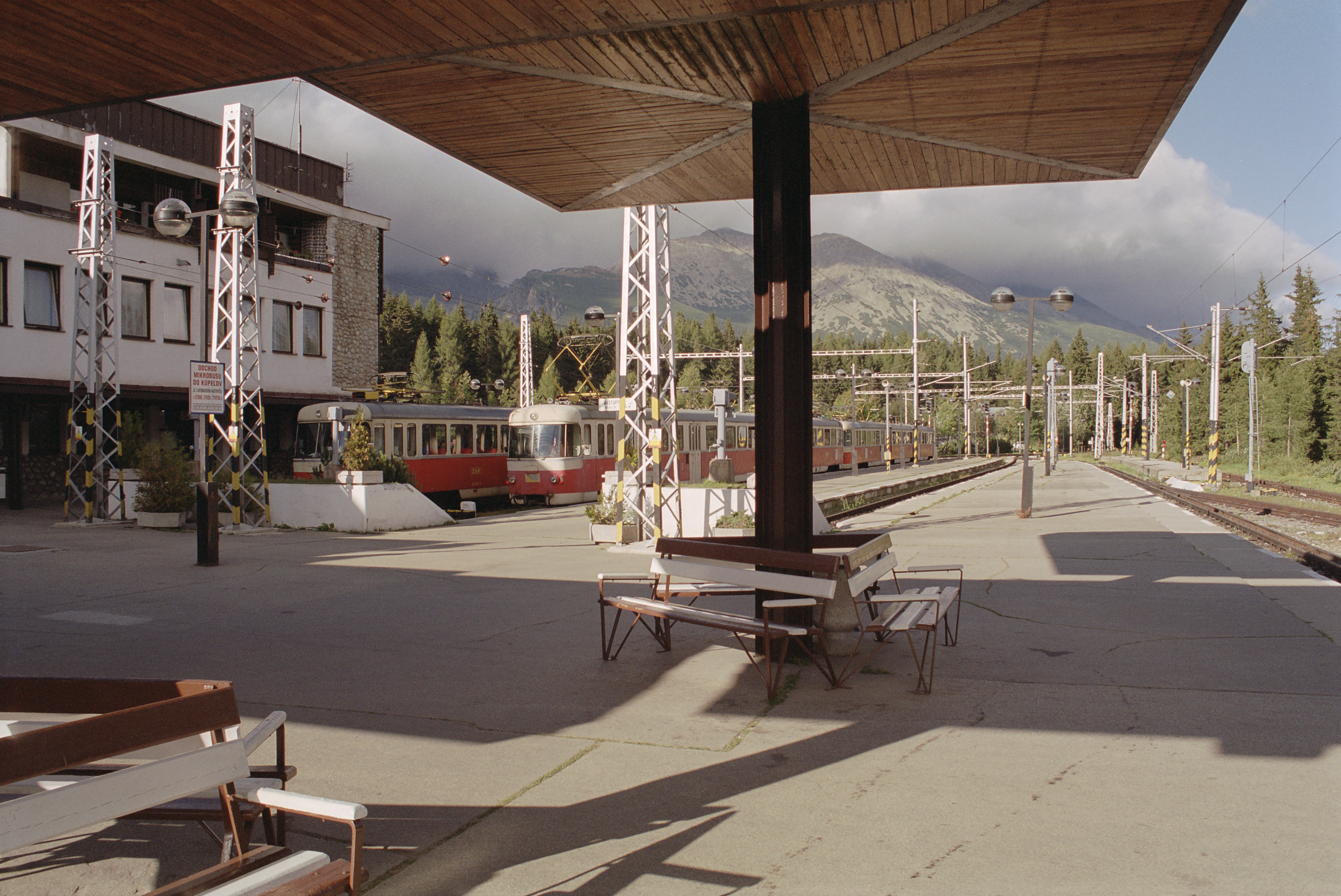 railway station Štrbské Pleso railway station of the narrow gauge electrical railway in the High Tatra mountains (on the left with two train units) and the rack railway Štrba–Štrbské Pleso (on the right) own picture, taken in summer 2000